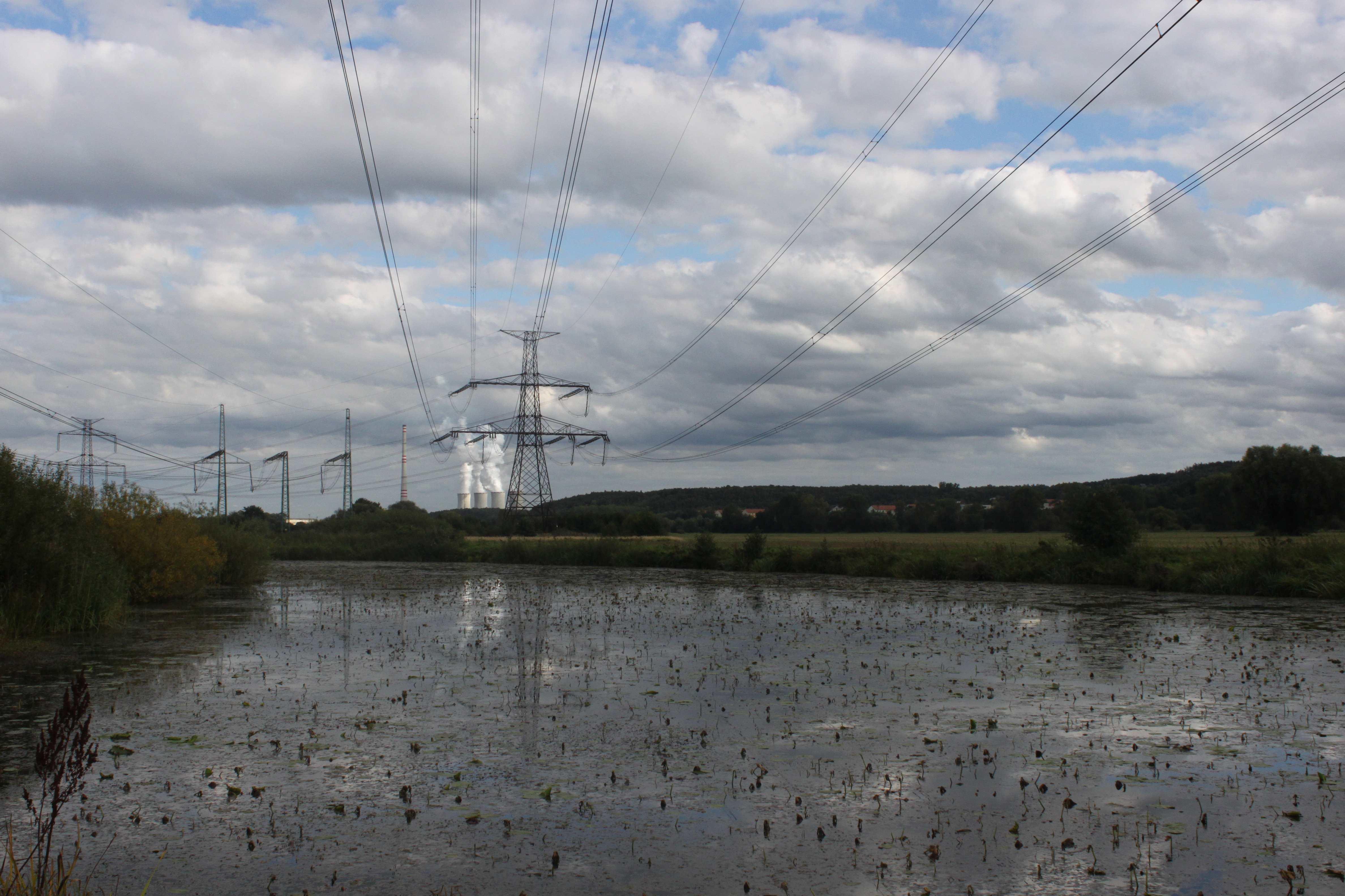 Nature reserve "Týnecké mokřiny" in Kolín District, Czech Republic. Wetlands with rare plant and bird species and "NATURA 2000" locality of toad Bombina bombina. View towards Chvaletice power station (background). 400 kV overhead power lines (left V401 Týnec–Krasíkov with prominent pylon triple, right V471/V472 Elektrárna Chvaletice–Týnec).